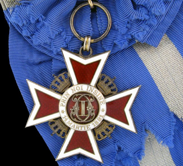 Order of the Crown of Romania, Grand Cross, 1932, obverse